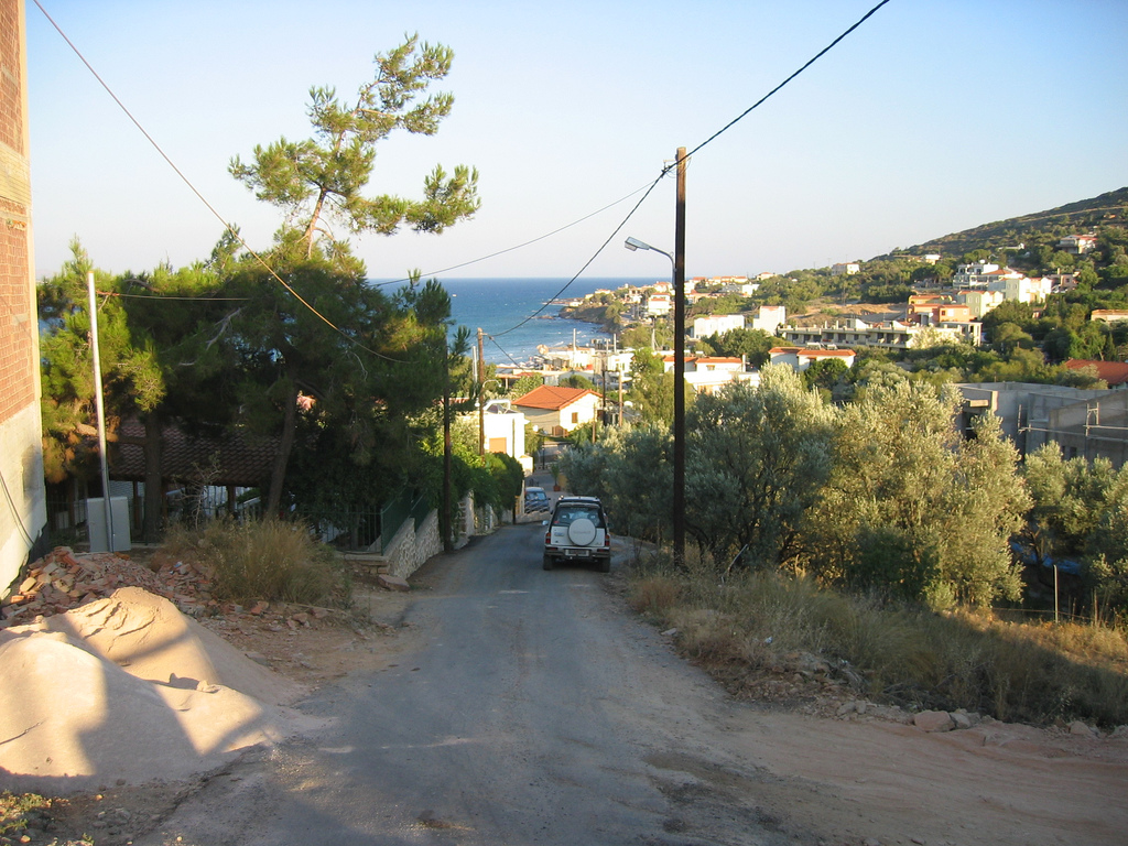 Backroads of Karfas